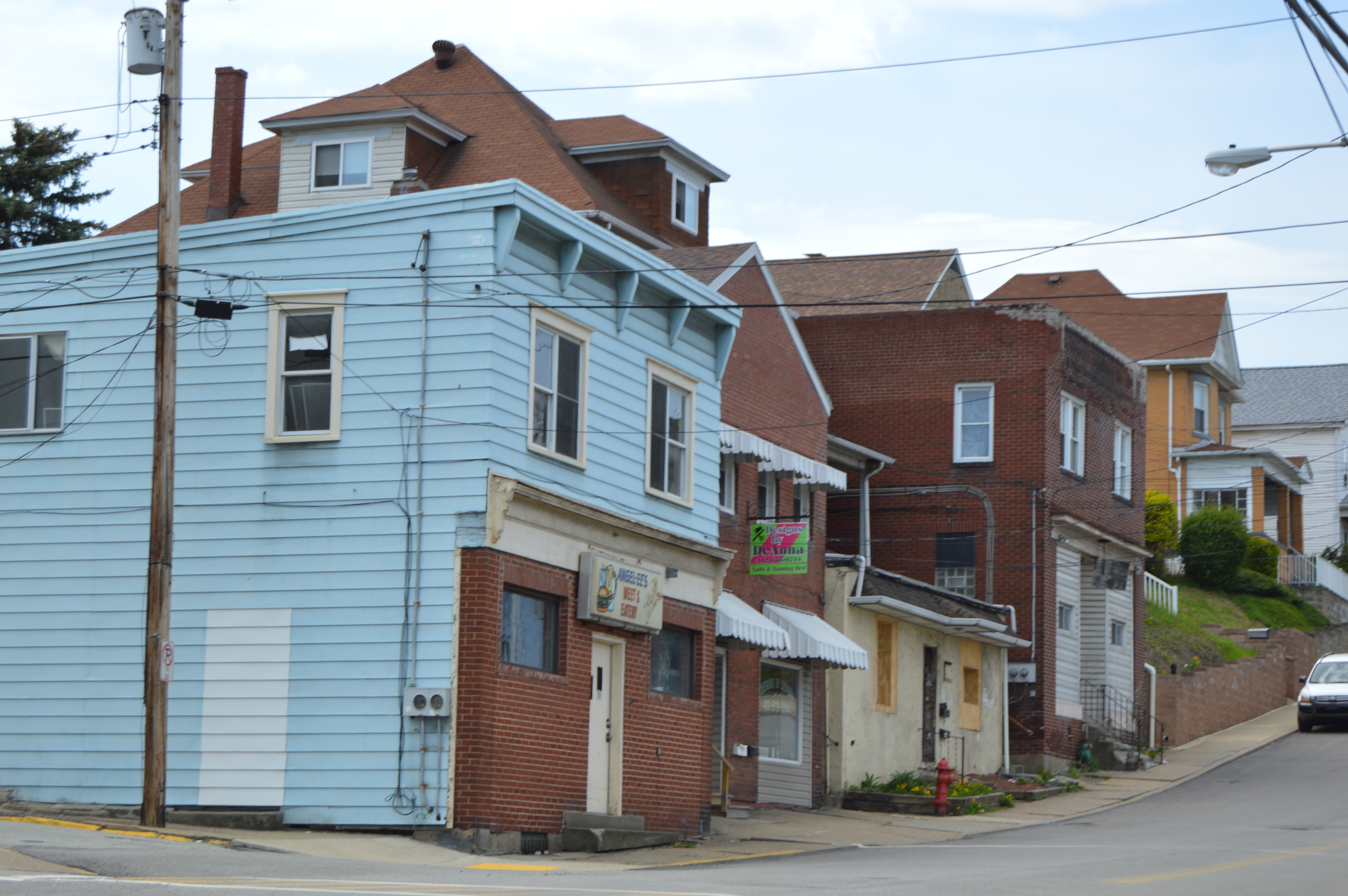 Buildings on the southern side of Romine Avenue, seen looking west from the Brushton Street intersection, in Port Vue, Pennsylvania, United States.